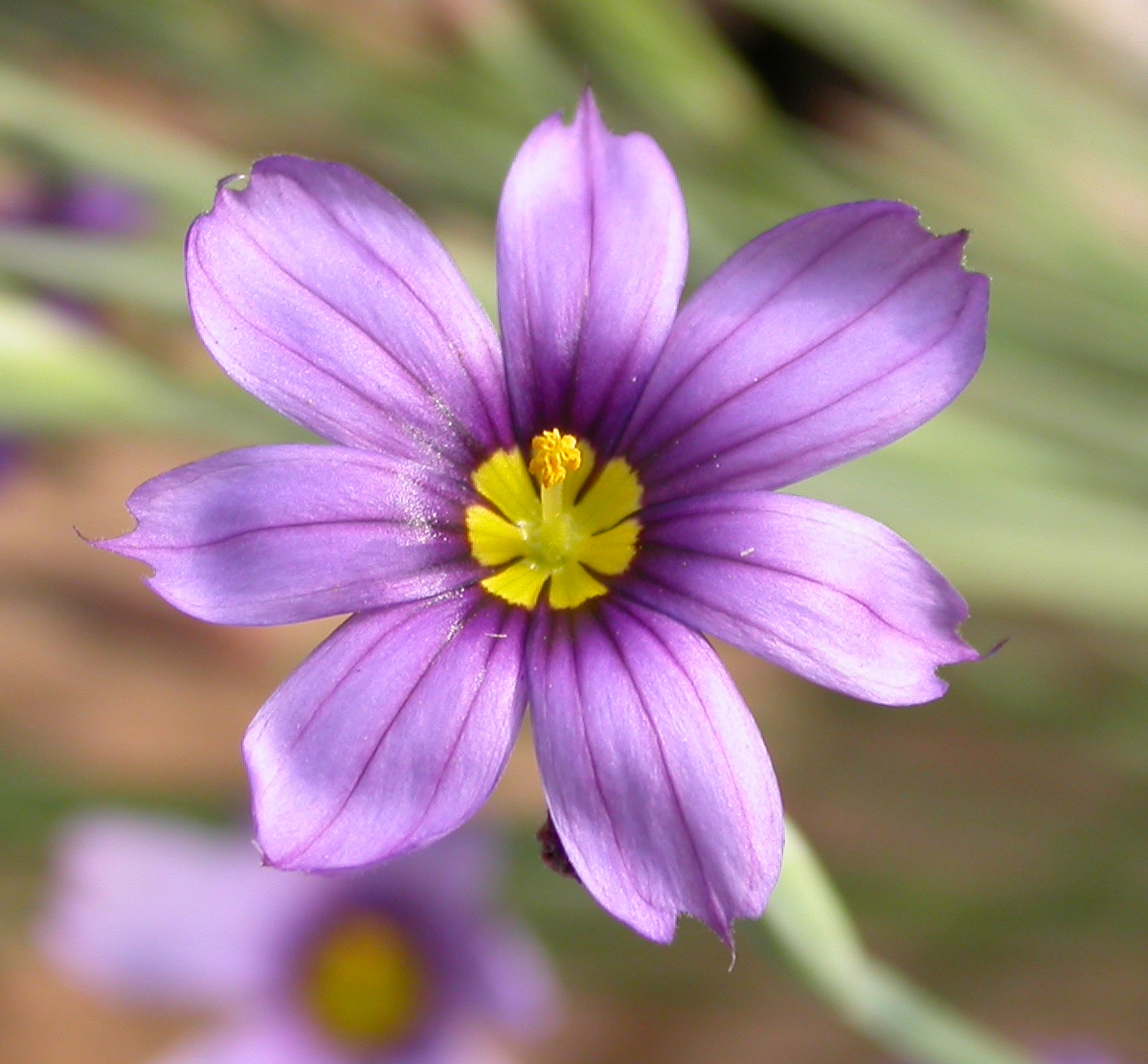 Photographed at BioTrek. Contributed and © by Curtis Clark. Licensed as noted. Sisyrinchium bellum This flower has an extra tepal (from its position, it appears to be a sepal). Flowers of this species ordinarily have six tepals.